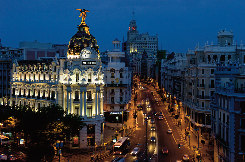 Madrid, Gran Vía This photograph can be used for publications, including this copyright statement: “©PromoMadrid, author Max Alexander”. Esta fotografía puede usarse en publicaciones, incluyendo la declaración “©PromoMadrid, autor Max Alexander”.